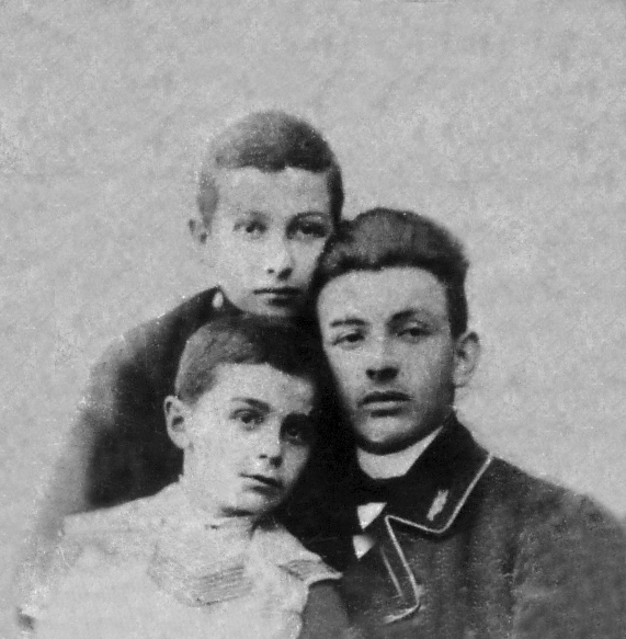 Mikheil Javakhishvili (Right) with his brother Pridon (second row). Third person unknown